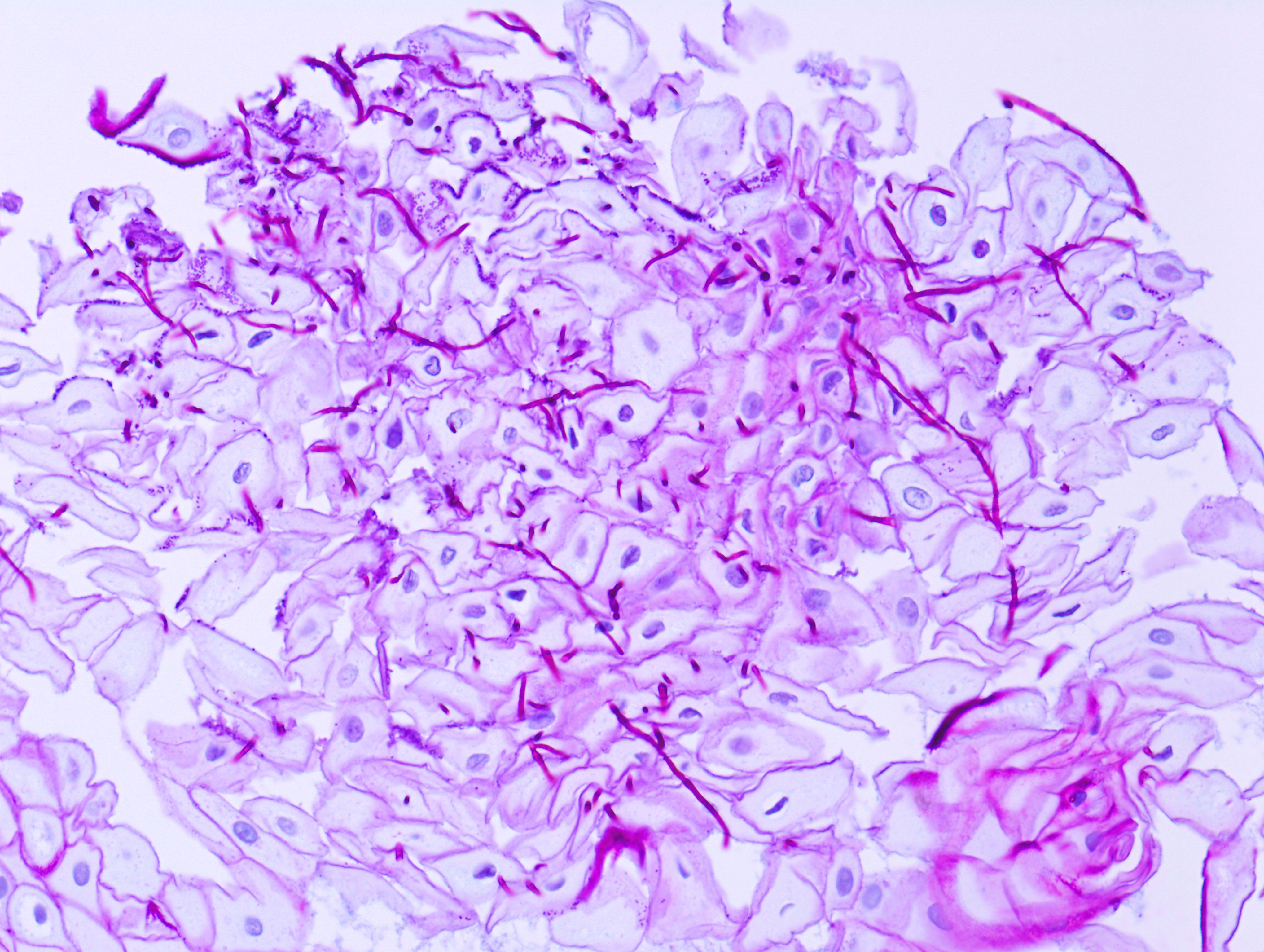 Esophageal candidiasis stained by periodic acid-Schiff procedure